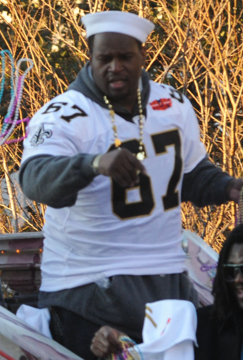 February 9, 2010